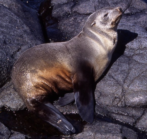 This picture was taken in Possession Island (Crozet Archipelago) at the site named "Christmas cove". This picture was taken in february 2003 by Nicolas Servera. You can see a female of the subantarctic fur seal (Arctocephalus tropicalis) resting on a rock just near the water.